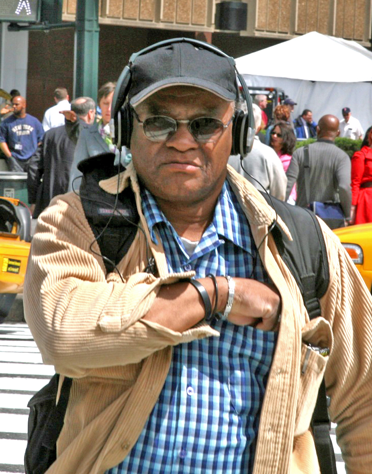 I only realized the next day that I snapped this pic of Biff Henderson of the Late Show with David Letterman crossing the street near the Garden.